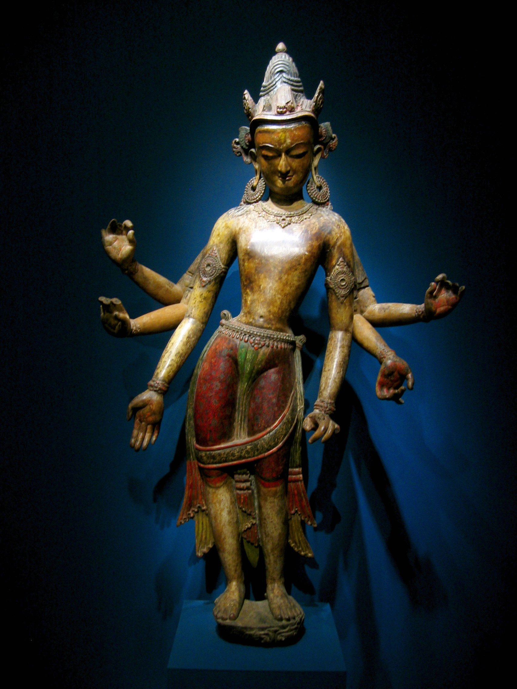 Introduction from the official Freer website: BODHISATTVA WHITE AVALOKITESHVARA (AMOGHAPASHA LOKESHVARA). 14th century, Malla dynasty, Early Malla period, Nepal. Polychromed woodH: 162.5 W: 96.0 D: 37.0 cm. Purchase - Friends of the Freer and Sackler Galleries and Sigrid and Vinton Cerf, F2000.5 Standing poised in the elegant tribhanga (triple-bent) pose, White Avalokiteshvara (literally, The Lord Who Looks down from on High) is a popular guardian deity of the Kathmandu Valley of the Himalayan kingdom of Nepal, and pious Buddhists perform a special puja (ritual worship) to him each month. The beauty of the oval face, the sinuous lines of the torso, and the deft addition of paint make a significant statement about the achievement of Himalayan art. The image, which would have been honored within the shrine of a Buddhist monastery, is in exceptional condition considering that as a consecrated figure (X-rays reveal the insertion of a variety of metal objects and prayers that empower it), it frequently received ritual baths. Carved from a single large piece of wood, the image testifies to Nepalese skill in woodcarving. The wood is from the shal tree (shorea robusta), a tropical hardwood highly resistant to decay and insect damage, and therefore favored by sculptors. Artists covered the figure with a smooth layer of gesso (a fine, white plaster) and painted it in a variety of colors and patterns. Missing today is the inlay of precious stones, a Himalayan specialty, as well as two of the eight additional arms. Freer Gallery of Art. Washington, DC.